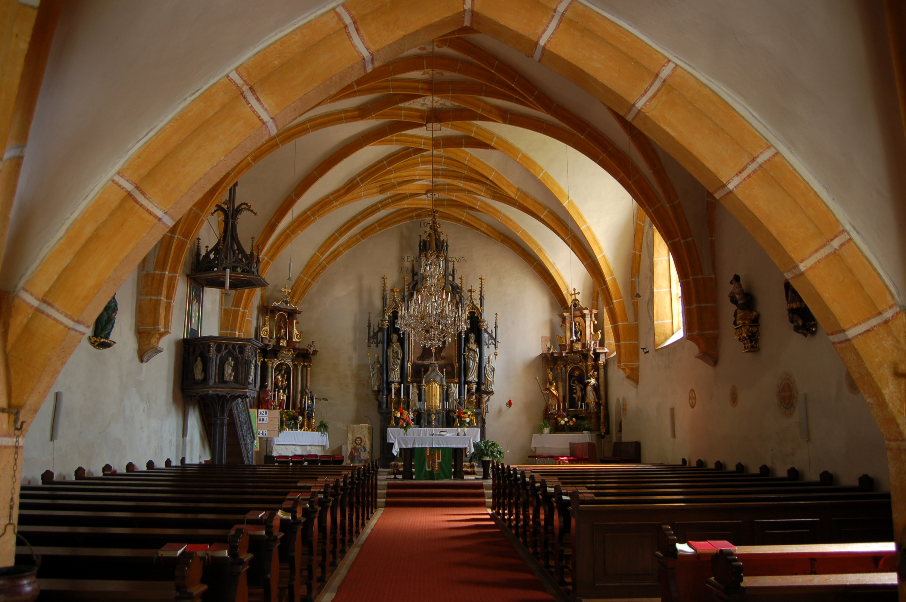 Interior of Saint Lambert parish church in Bromberg, Lower Austria